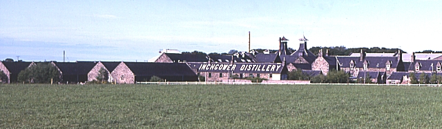 Inchgower Distillery. One of the many malt whisky distilleries in the county of Banff, it was built in 1871.